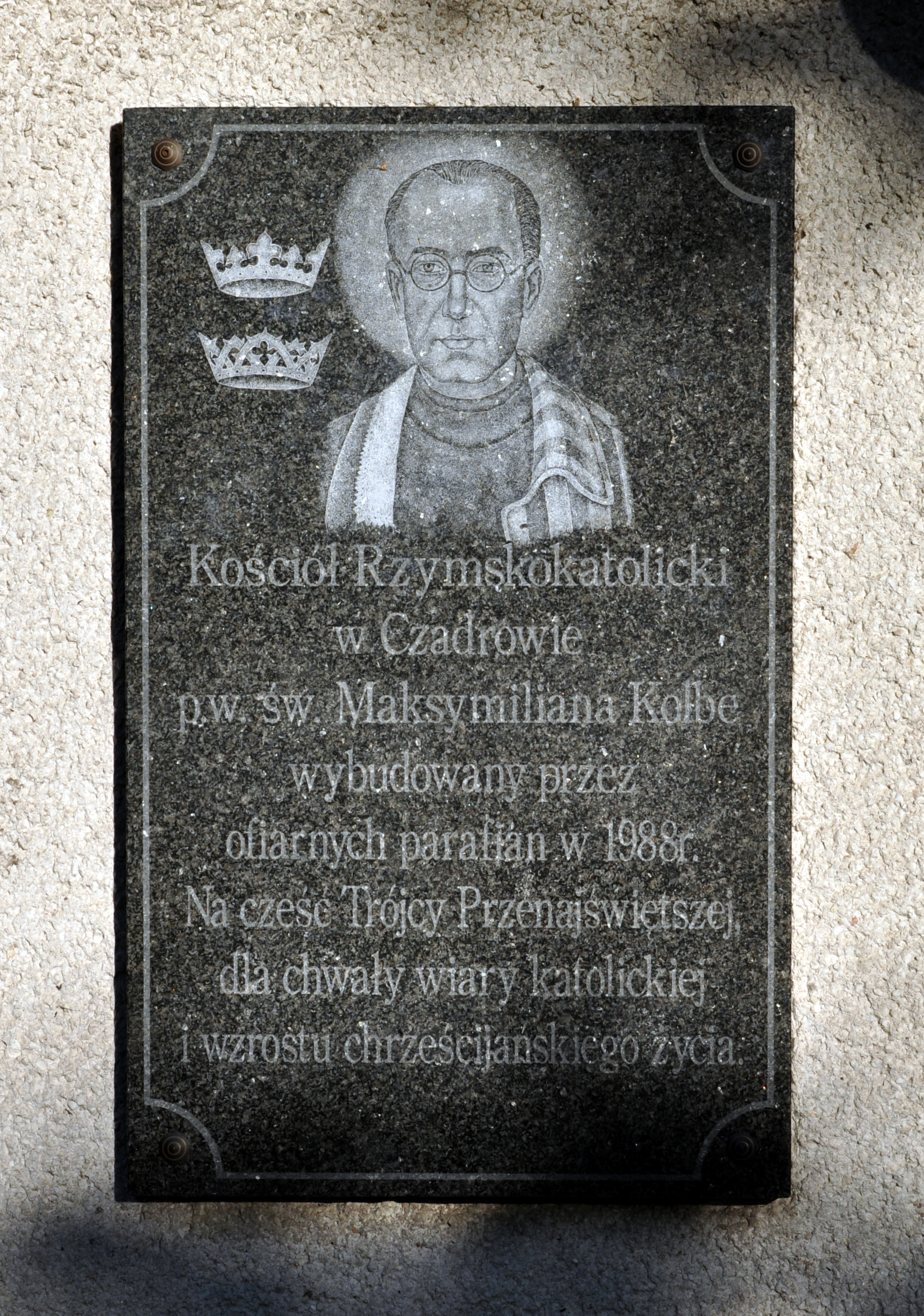 Church in Czadrów